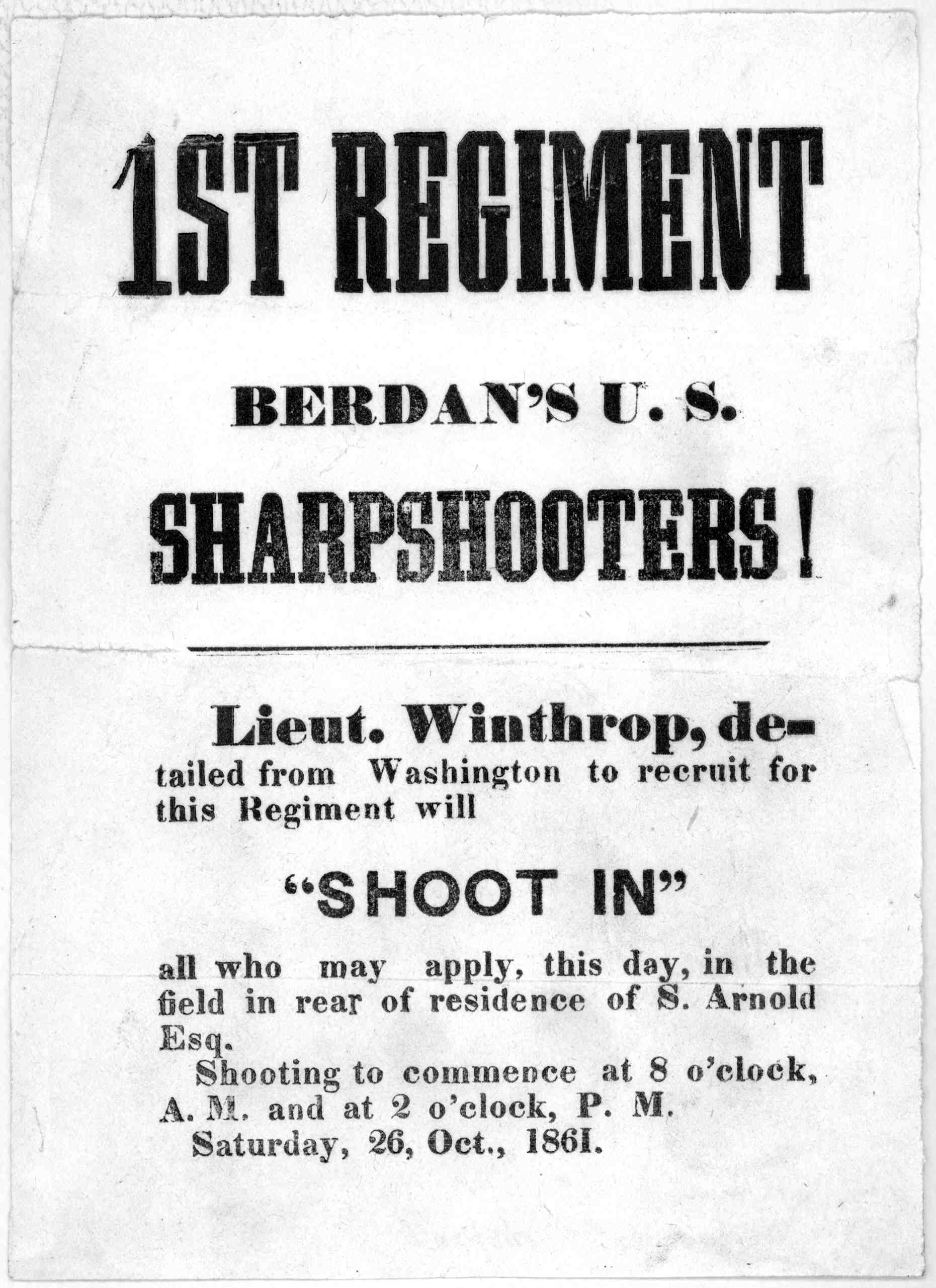 1st United States Sharpshooters recruitment poster. Text: 1st regiment Berdan's U. S. sharpshooters! Lieut. Winthrop detailed from Washington to recruit for this regiment will "shoot in" all who may apply, this day, in the field in rear of residence of S. Arnold Esq. Shooting to commence at 8 o'clock.